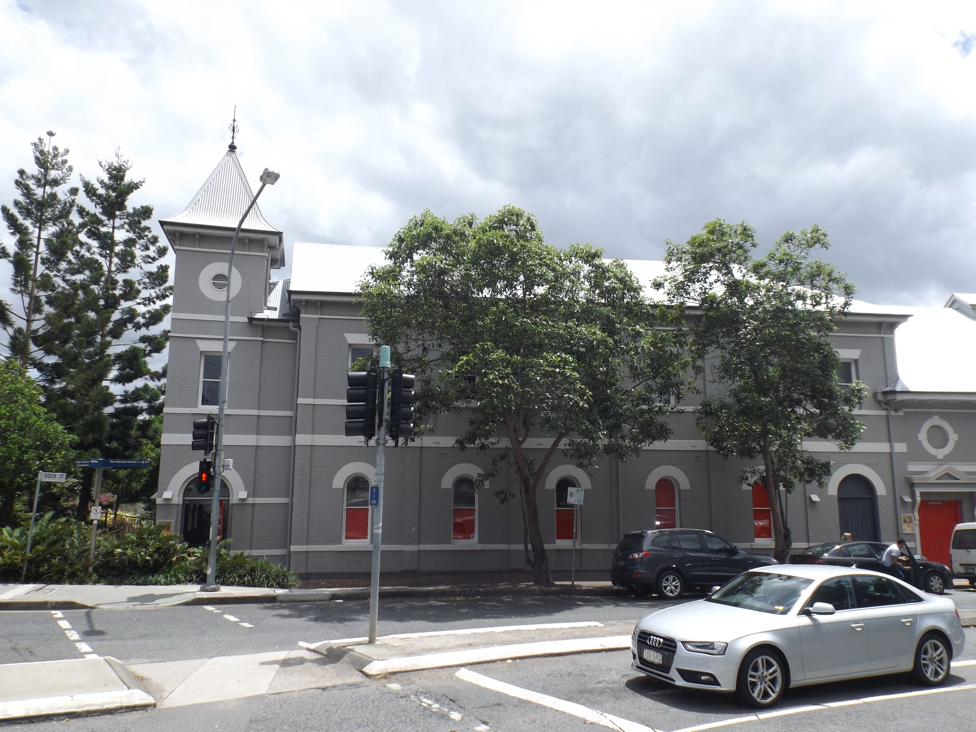 Photo of South Brisbane library at South Brisbane, Brisbane, Queensland, Australia.